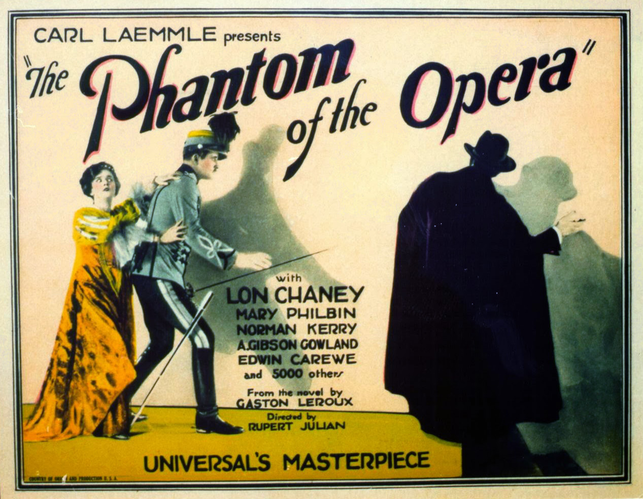 Lobby card for the American horror film The Phantom of the Opera (1925).